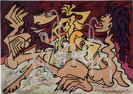 Oil on canvas, private collection, 100 x 140 cm, 1991